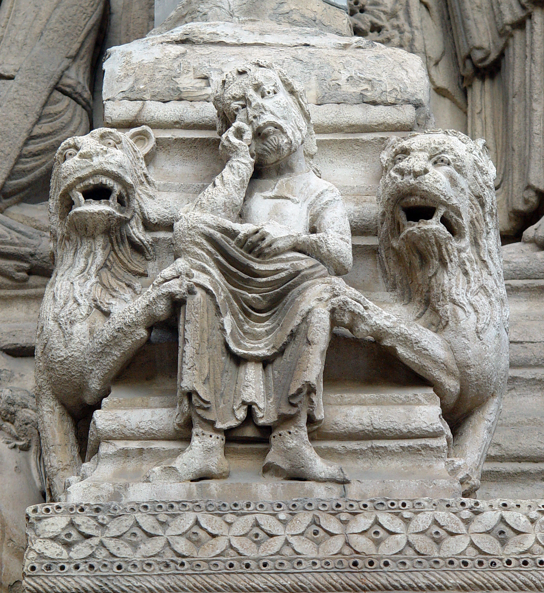 Daniel in the lions' den on the portal of the Church of St. Trophime, Arles